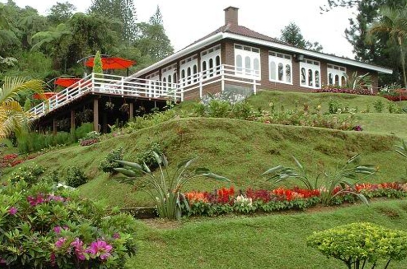 Cendana Hut